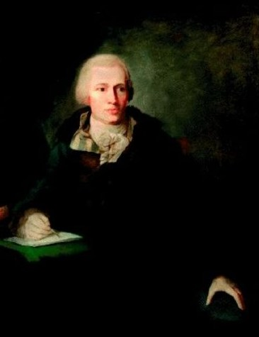 Portrait of a writing gentleman in a fur coat